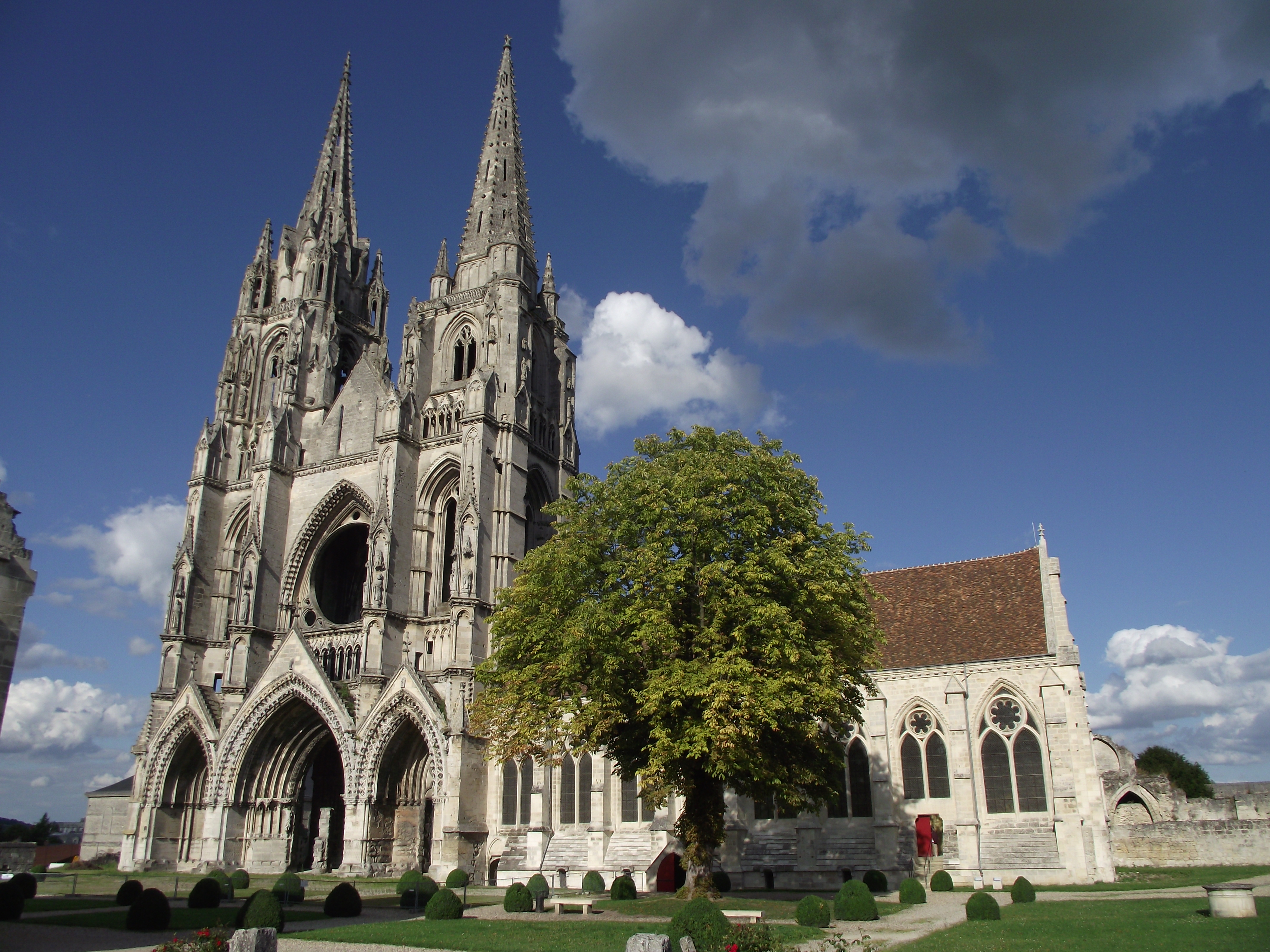 Soissons, Saint-Jean-des-Vignes Abbey, XI-XV Century